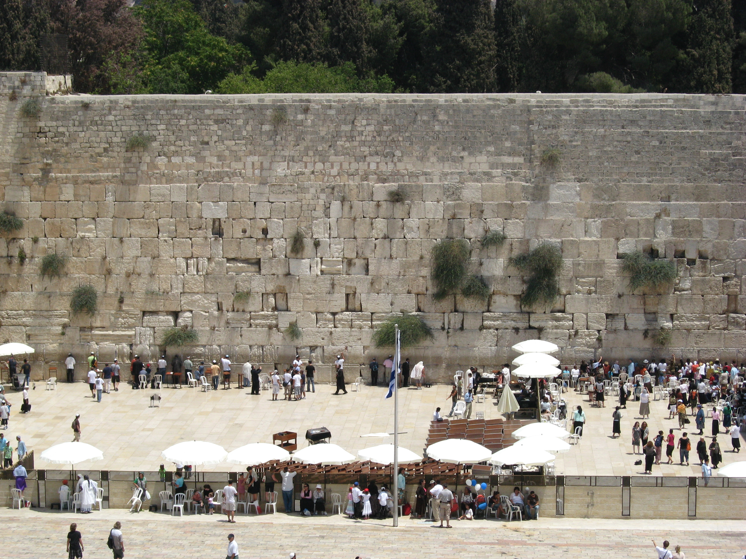 Close-up of the Wailing Wall